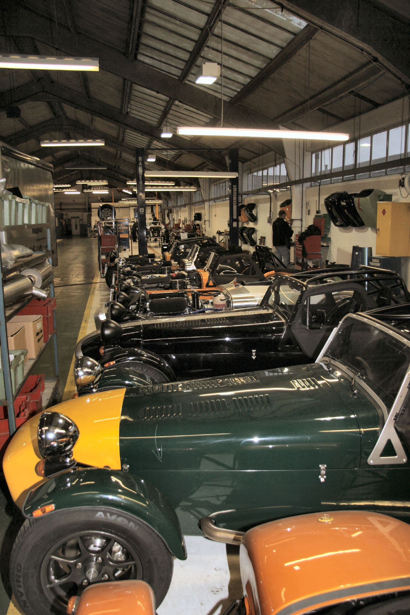 Factory built road and track cars